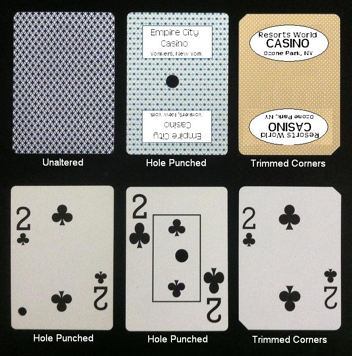 Images of various playing cards shows how they're trimmed or punched in order to deface them and prevent them from being intentionally or accidentally in any future play in the casino. It's often assumed to prevent them from being used by cheating players, but unless a crooked dealer is involved, its impossible for players of casino card games to "load" decks in play with additional cards. Regardless of the game, cards are dealt to the players by the dealer. The players never handle decks and cards returned to the dealer are discarded or counted as they're returned to the deck. Giving away defaced and discarded decks is basically unknown since some casinos consider it poor business practice to give away the necessary equipment for players to play at home rather than at a casino. Others view free cards as a potential "trigger" for problem gamblers. The decks are typically marketed and sold as "souvenirs" and although buyers sometimes do purchase them for cheap cards to use at home, casino cards are typically cheap, low-quality cards that do not stand up to "hard use" like quality name-brand playing cards do. Because they're clipped or punched, they're "unofficial" and serious players generally won't use them for play. They're useful for practice shuffling, dealing, card tricks, as "toy" decks for children to play with, building houses of cards, etc. Usually the defaced decks sell for 25-50% of retail prices for a poker deck of quality cards from companies like Hoyle or Bicycle.